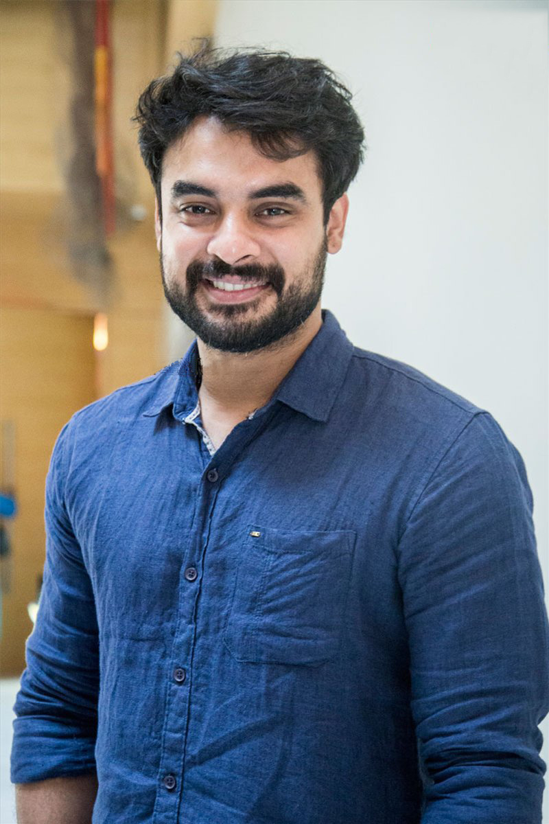 Tovino Thomas At The ‘Maari 2’ Press Meet